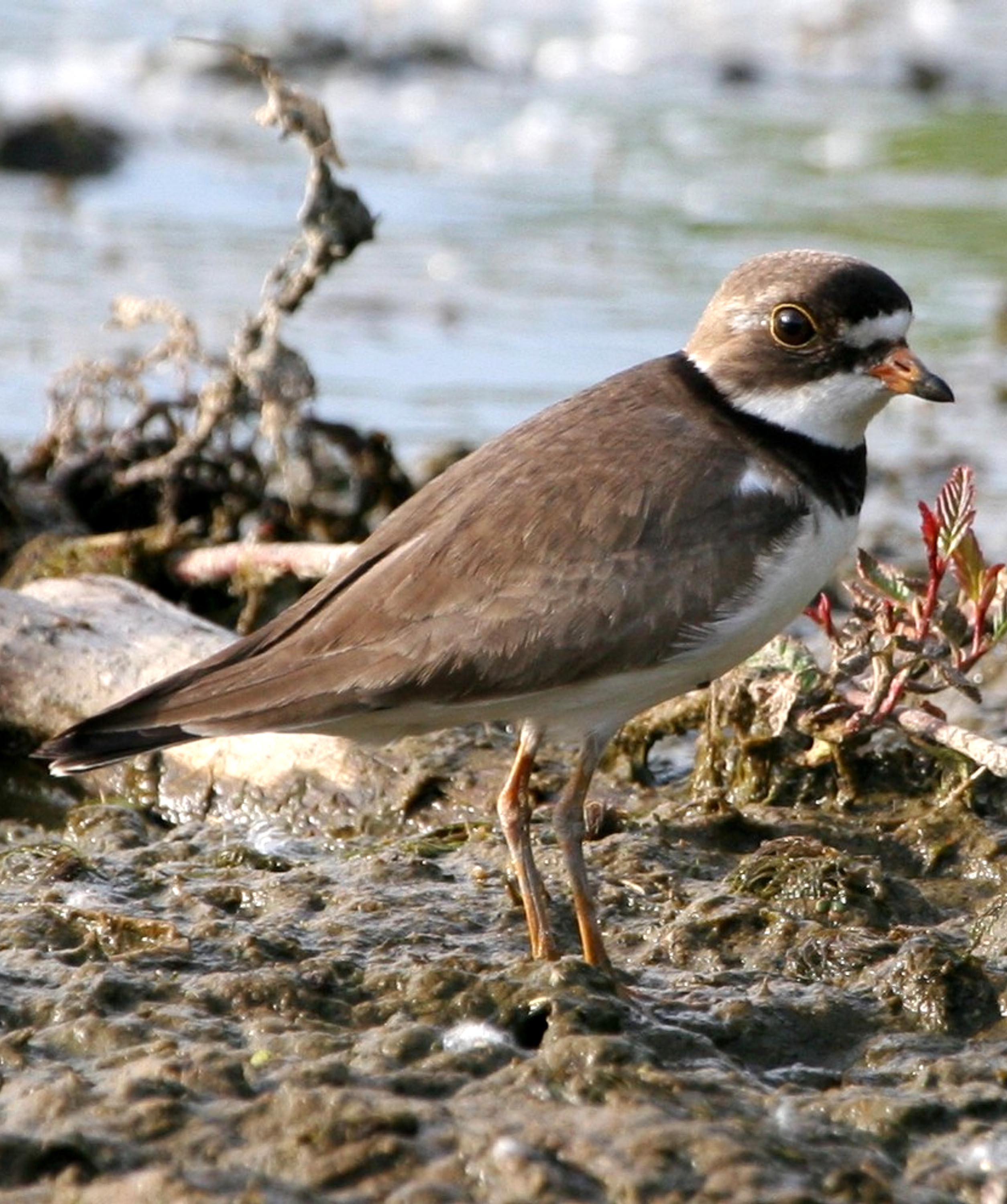 Semipalmated Plover Charadrius semipalmatus at Cheney Lake, Anchorage, Alaska.